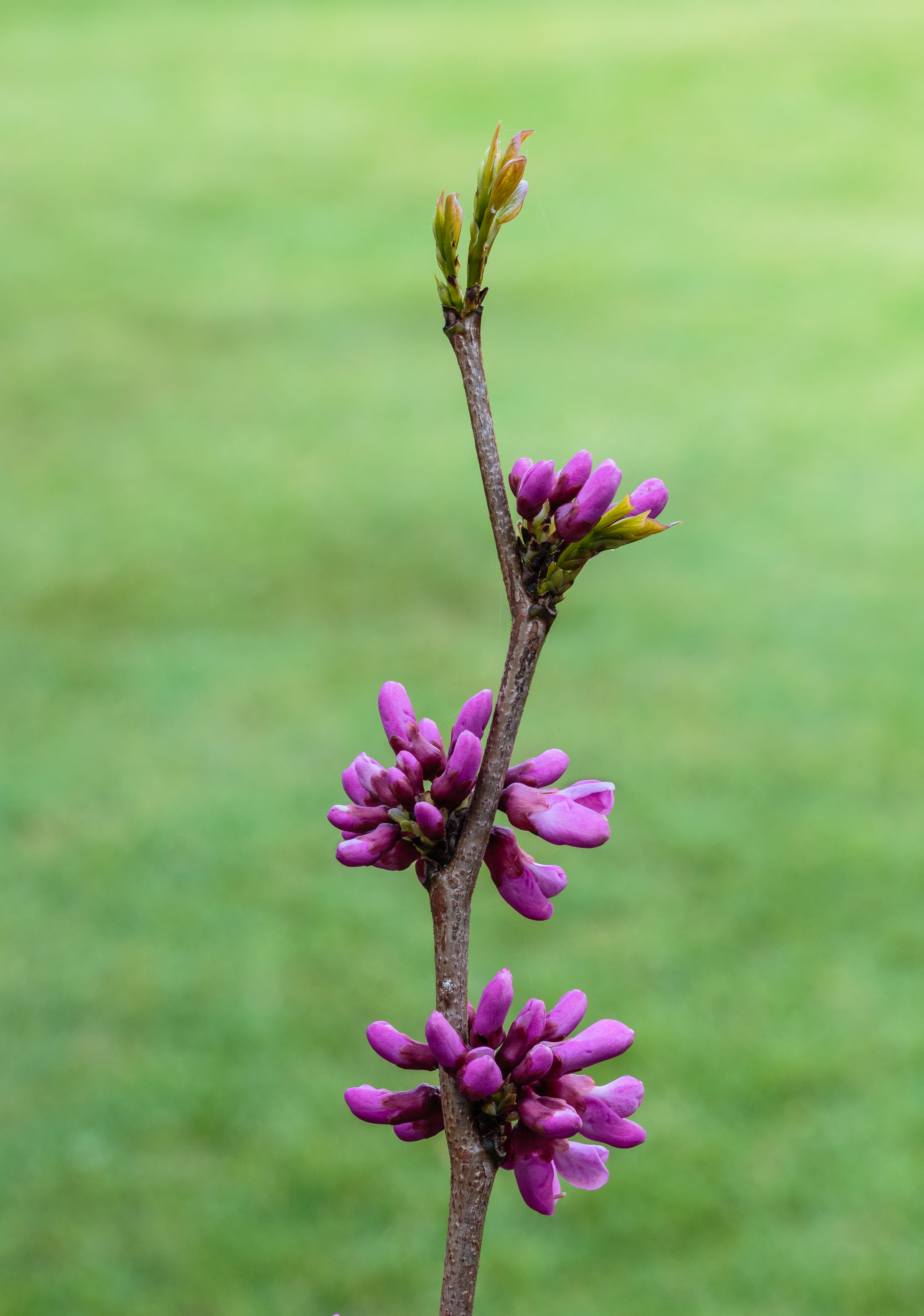 Eastern redbud ( Cercis canadensis 'Forest Pansy') Blooms on the bare wood. Location, Garden Tuinreservaat Jonker Valley.